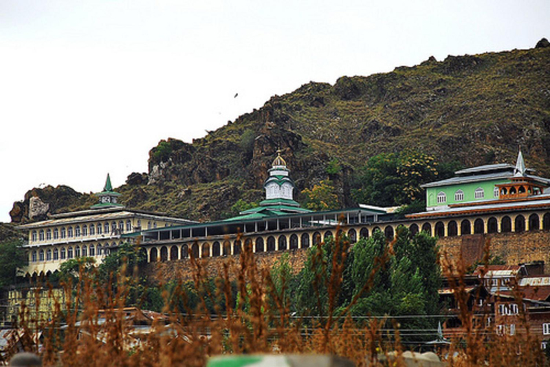 Sheikh Hamza Makhdum Shrine in Srinagar